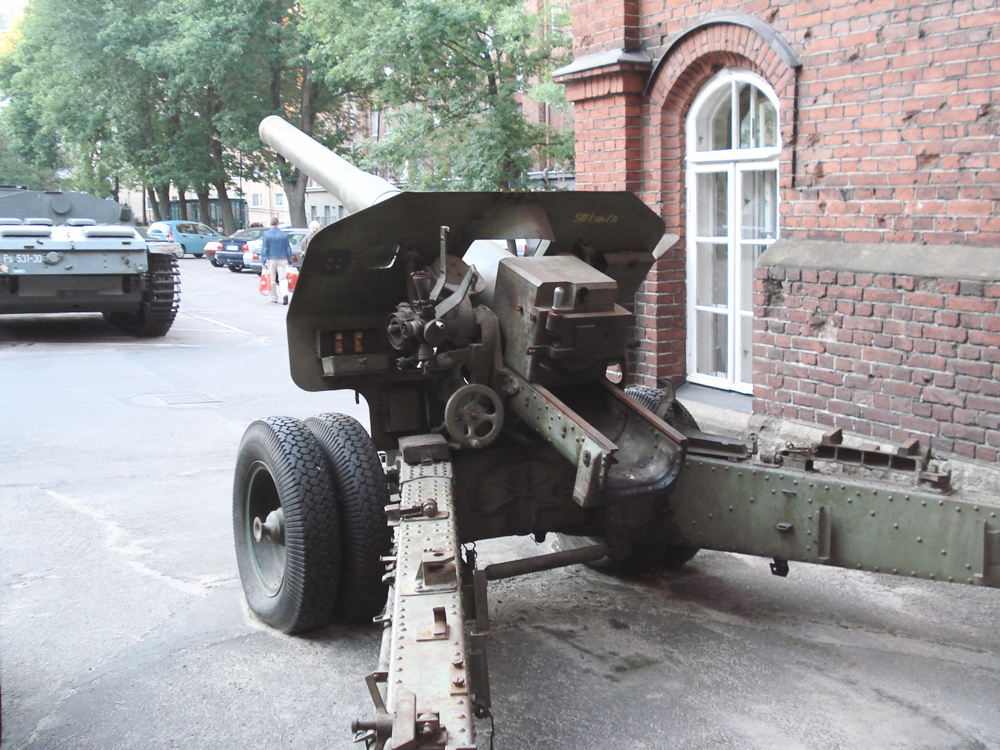 Soviet 152mm mm M-10 Model 1938 howitzer, displayed in Helsinki Military Museum. Photo taken on July 4, 2006. Source: Photo by me, User:Balcer.